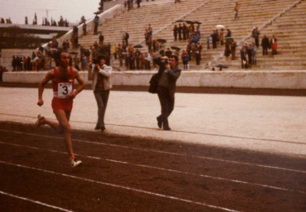 Gomez winning the IAAF Citizen Golden Marathon in Athens, Greece, in 2 hours 11 minutes and 49 seconds, on 7th March 1982. The finish line is in the Panathinaiko Stadium.